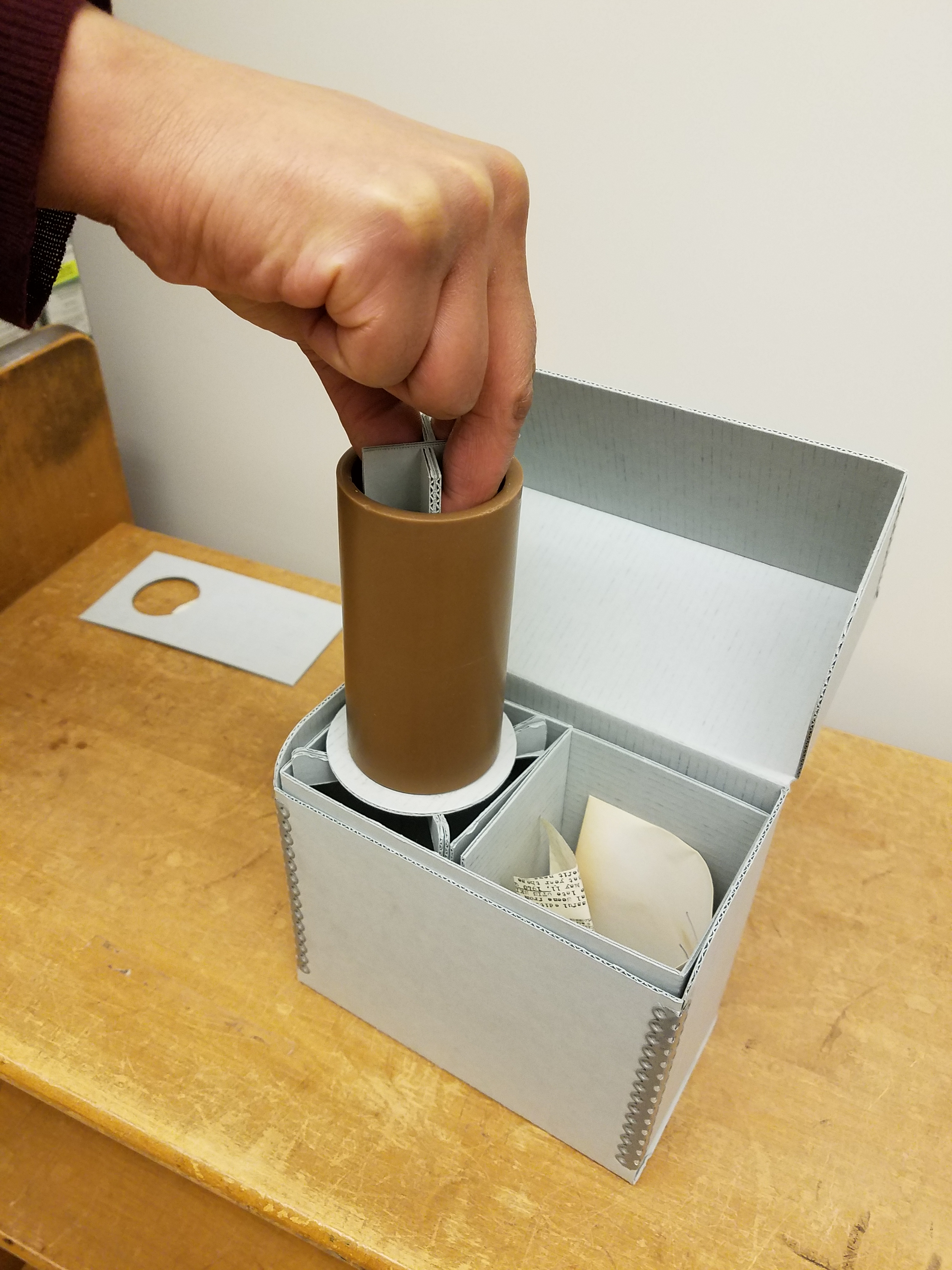 A sound archivist holds one of the Mapleson cylinders, in the Rodgers and Hammerstein Archives of Recorded Sound, The New York Public Library for the Performing Arts